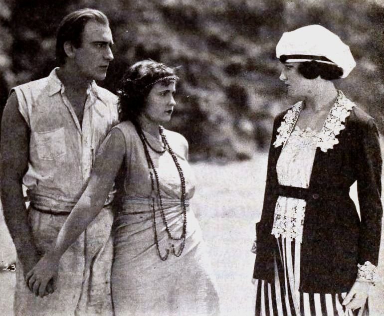 Still from the American drama film The Shark Master (1921) with Frank Mayo, May Collins, and Doris Deane, on page 55 of the September 3, 1921 Exhibitors Herald.